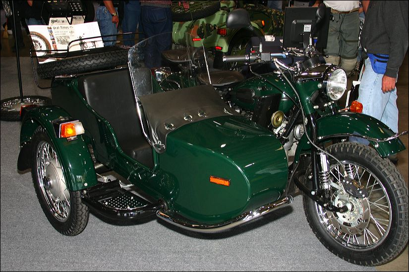 IMZ-Ural “Patrol” motorcycle with sidecar